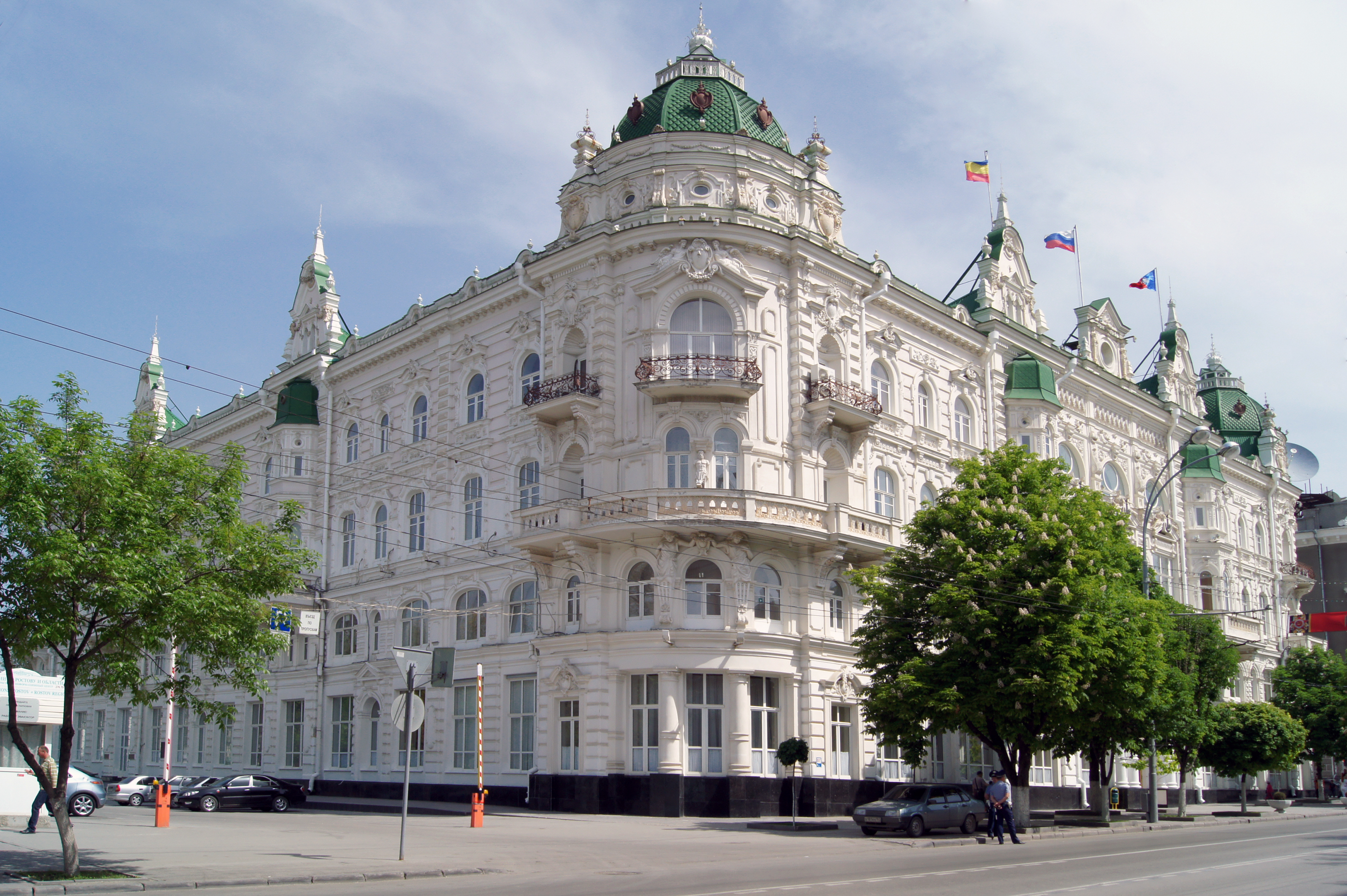 City Duma Building (Rostov-on-Don)